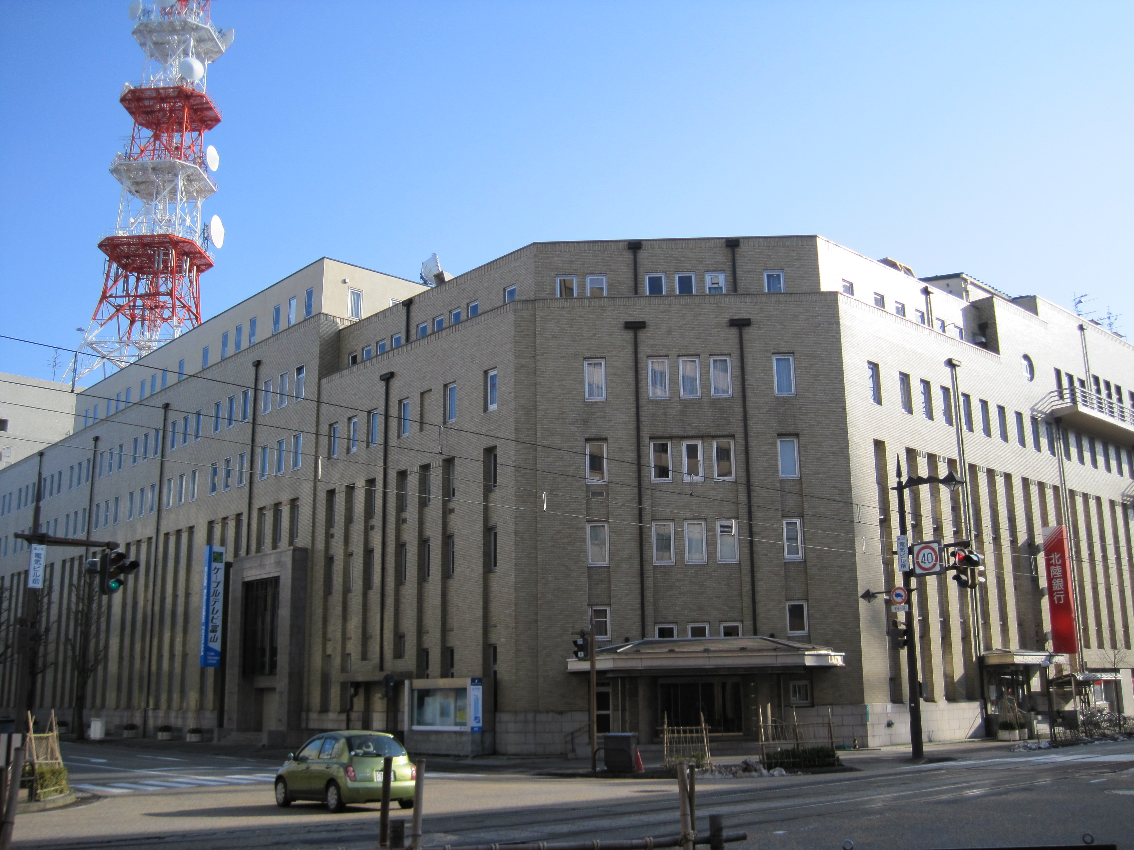 Toyama Denki Buildings(Toyama city, Toyama prefecture, Japan)